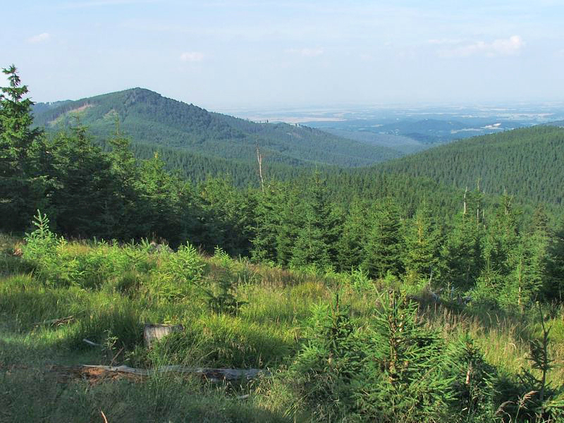 Kowadło Mountain in Góry Złote (Sudetes, Poland).